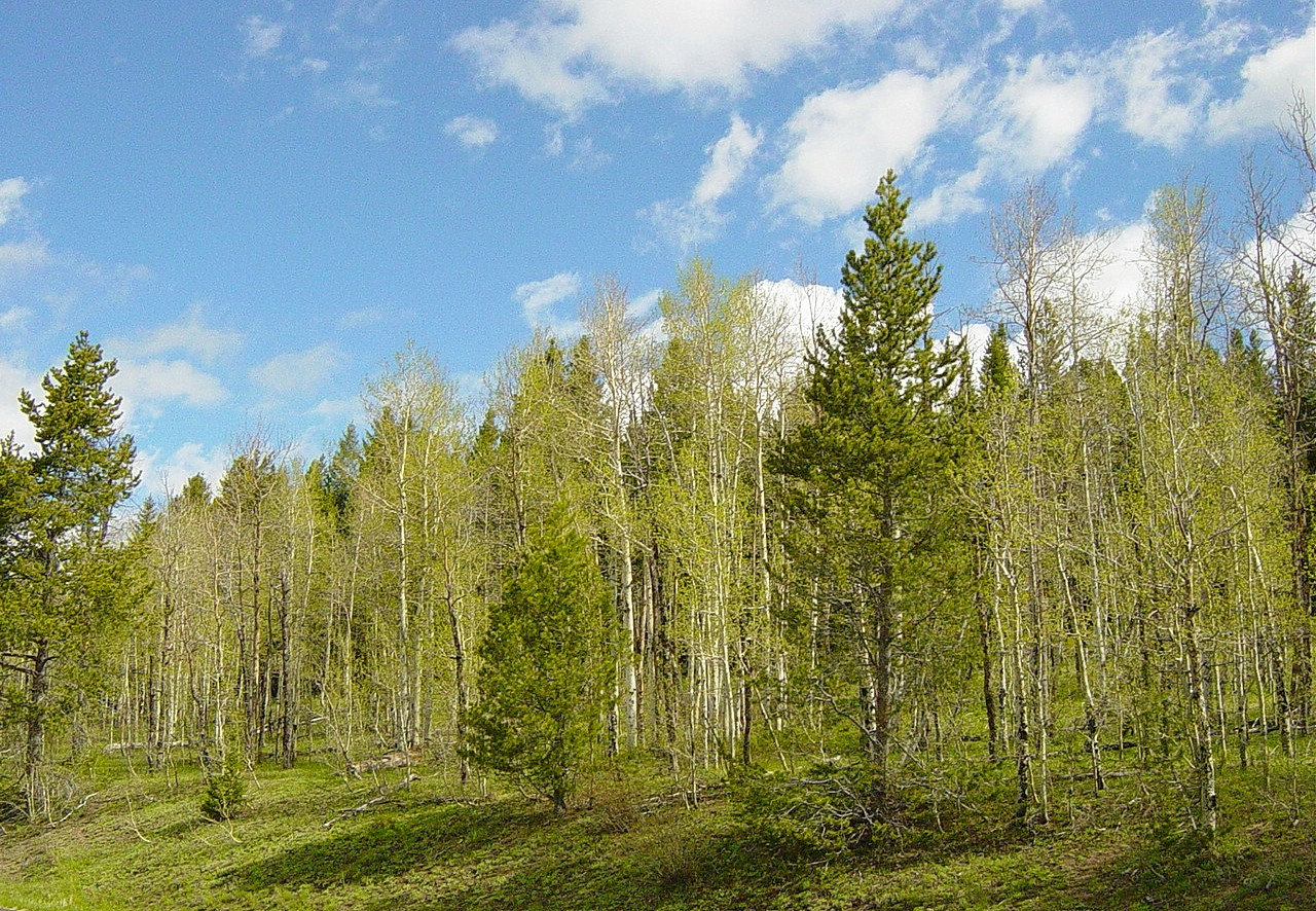 I took this image of quaking aspen (Populus tremuloides) and lodgepole pine (Pinus contorta) grove in Shoshone National Forest in May 2005, and I release all rights to the public domain.